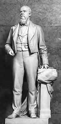 Statue of Oliver Hazard Perry Morton, sculpted in 1900 by Charles Henry Niehaus for the National Statuary Hall Collection